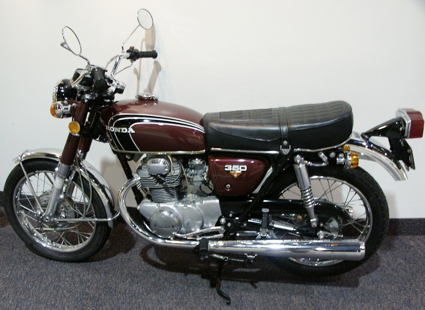 Subject Honda Motorcycle 1973 CB350 is located at the Curtiss Museum in Hammondsport, New York